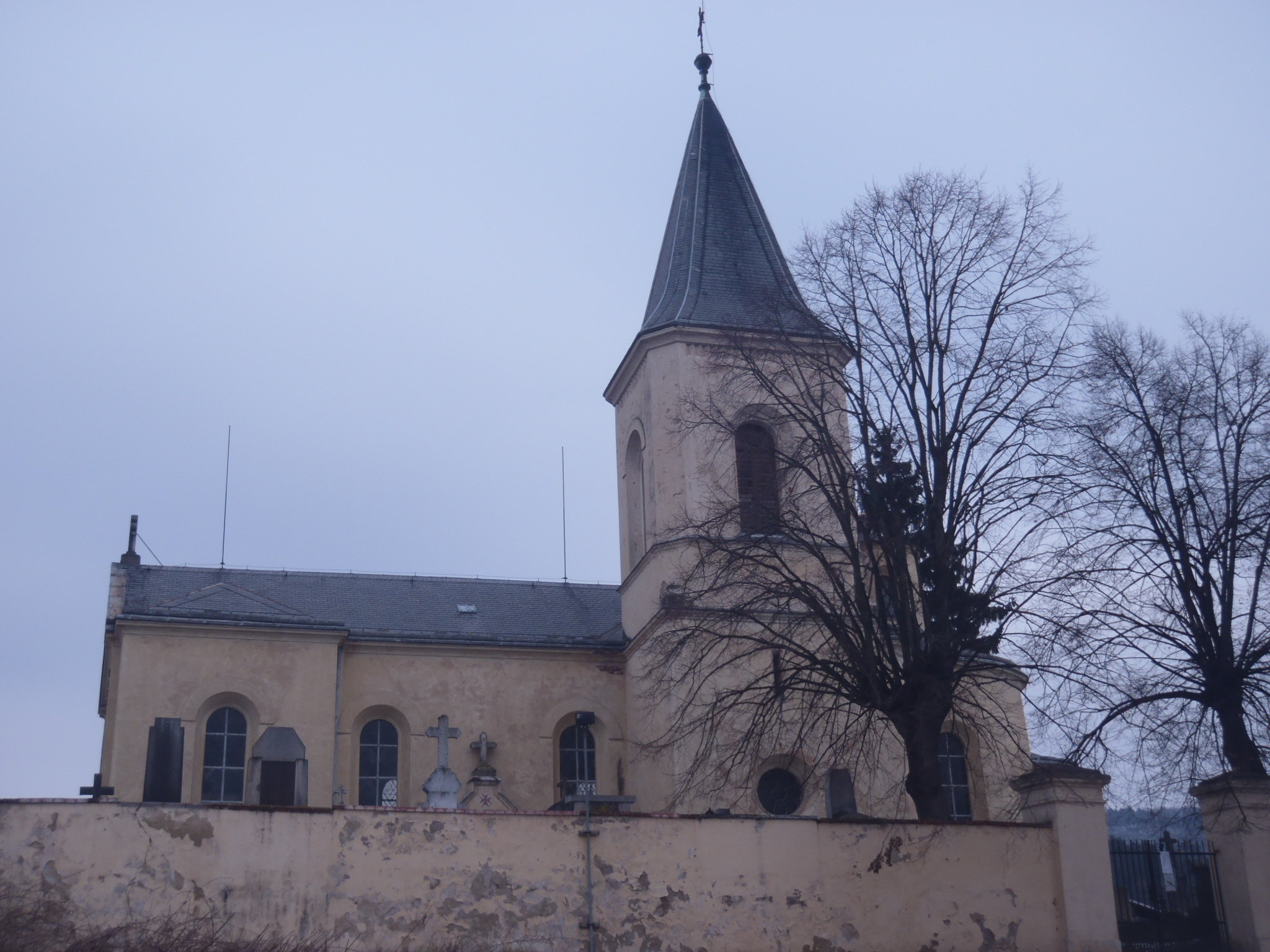 The church of St. Martin and St. Prokop in Karlík